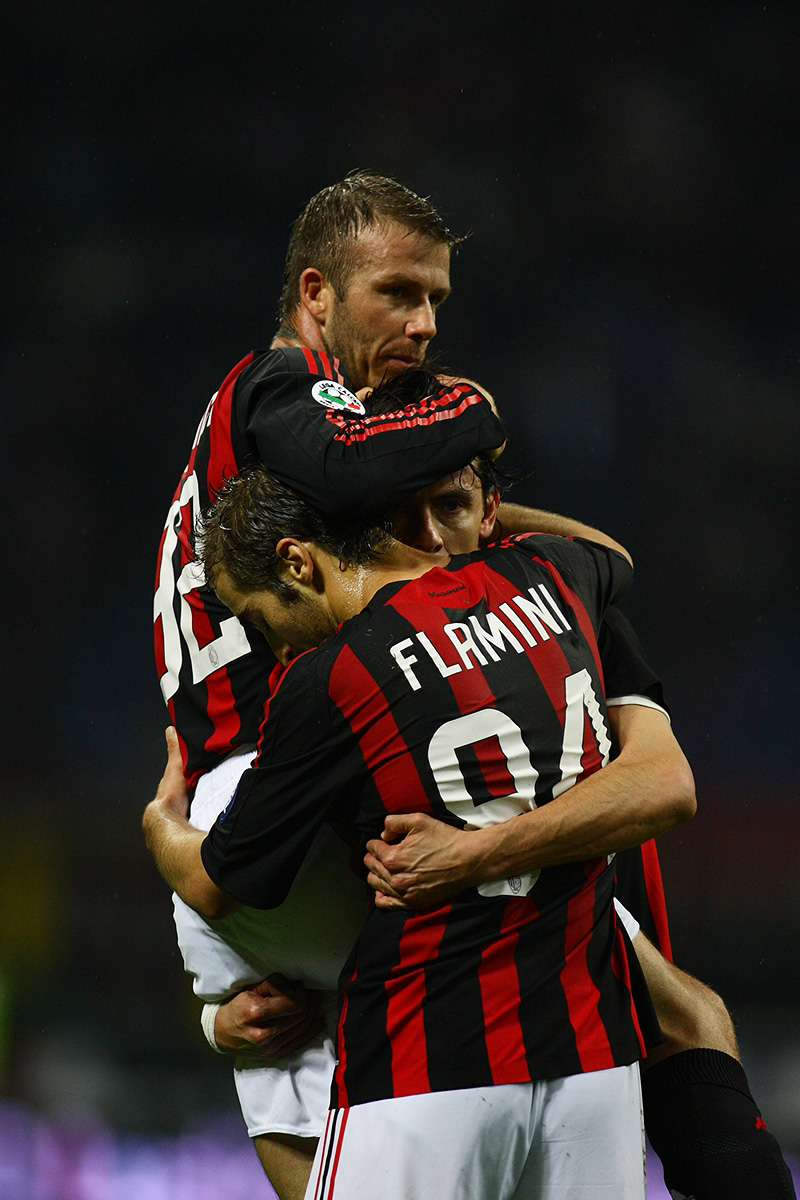 Football : Filippo Inzaghi celebrates his goal with David Beckham and Flamini during the Serie A match between Milan and Torino at the Stadio Meazza on April 19, 2009 in Milan, Italy. (Photo by Tsutomu Takasu)